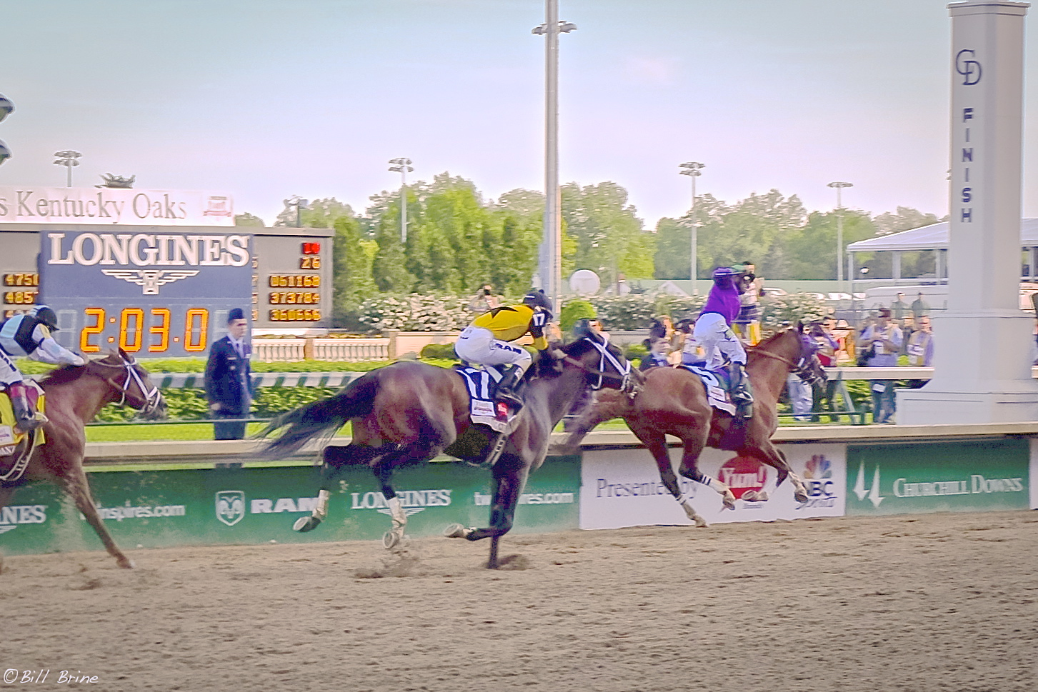 Finish of the 2014 Kentucky Derby from right to left: #5 California Chrome, #17 Commanding Curve, (far left) Danza.